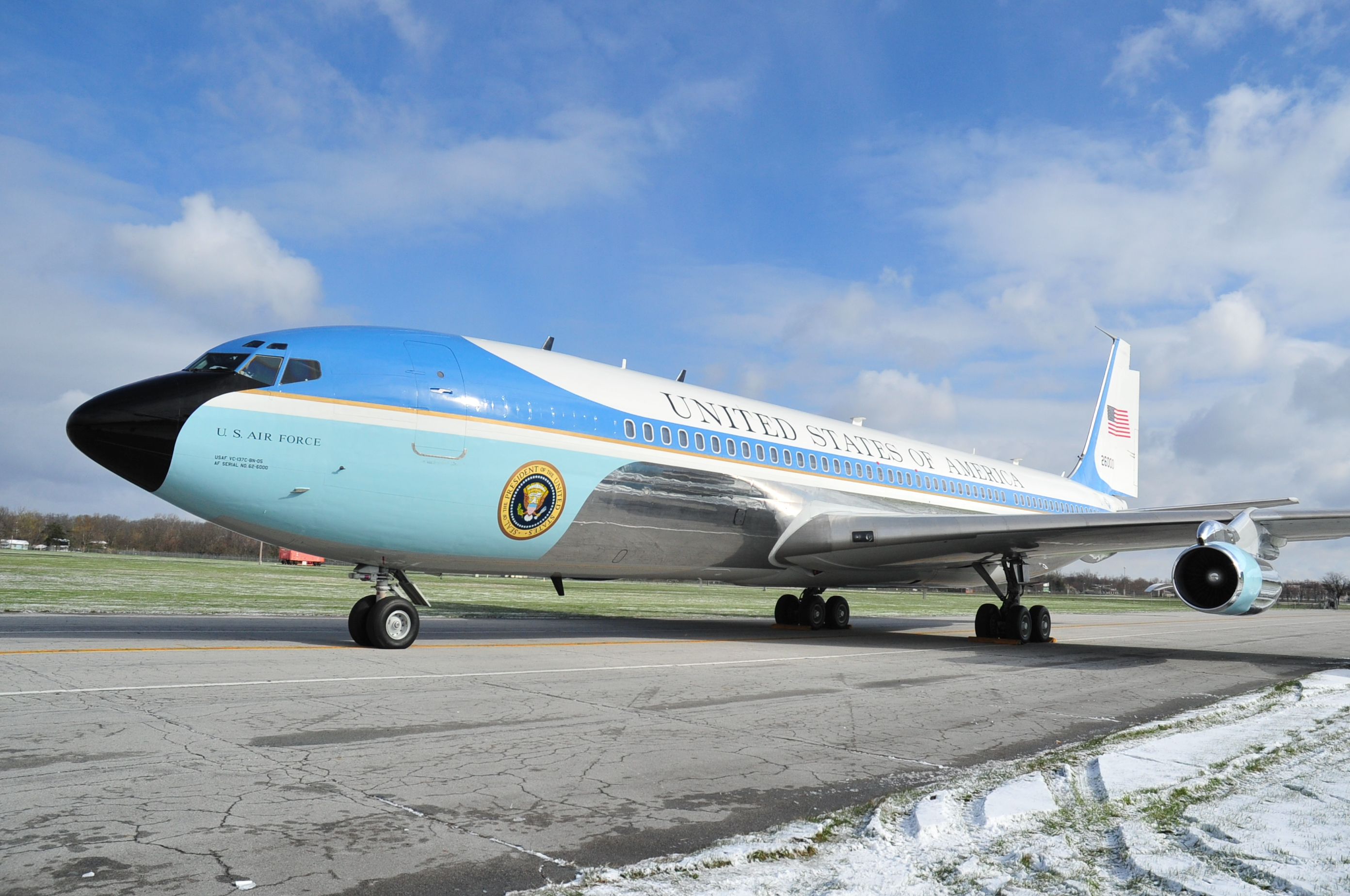 The Boeing VC-137C SAM 26000 (Air Force One) at the National Museum of the United States Air Force. (U.S. Air Force photo by Ken LaRock) Public Domain